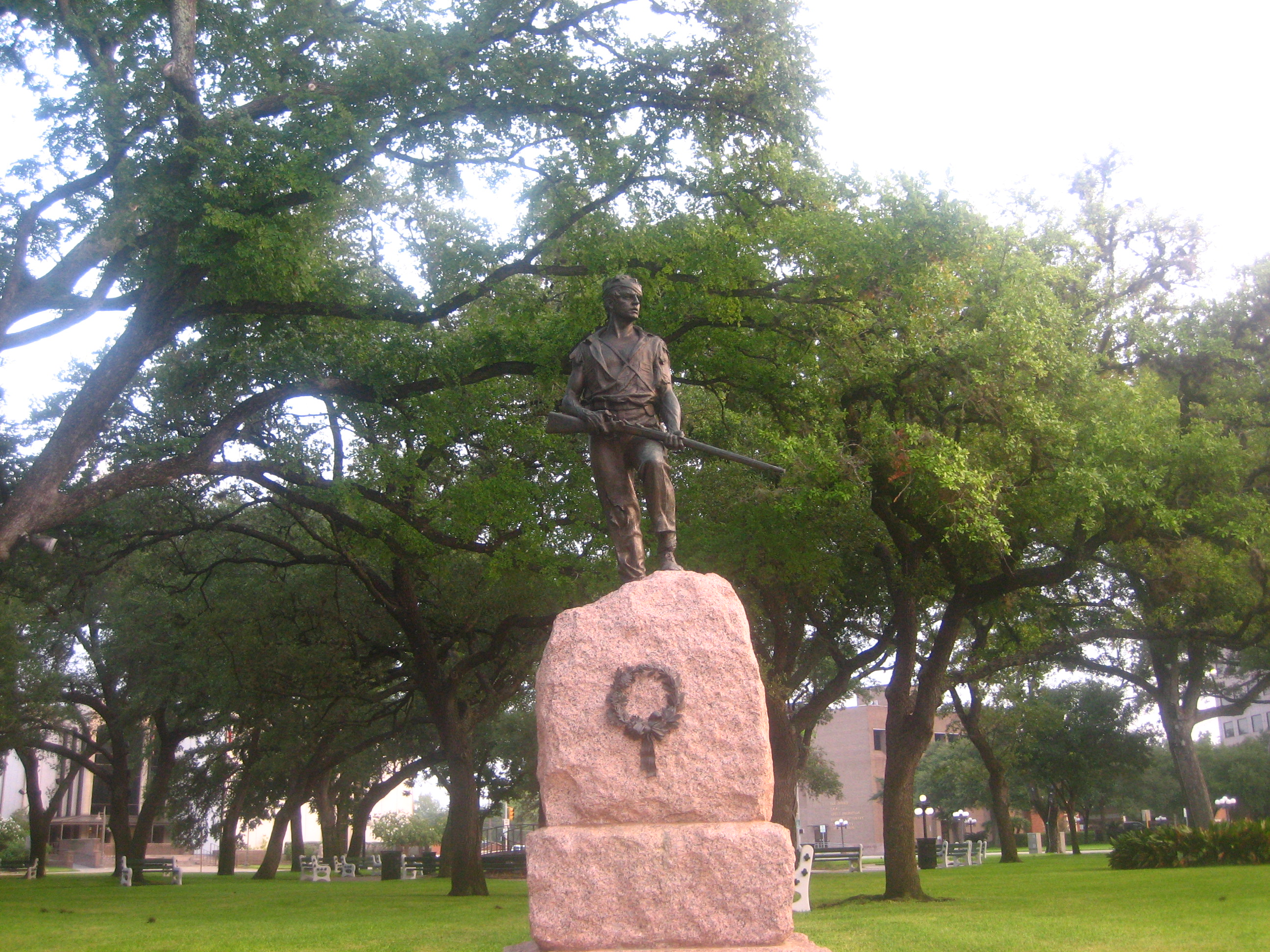 Monument dedicated to the Confederate States Army by Pompeo Coppini (1912) in Victoria. I took photo on July 31, 2008.Billy Hathorn (talk) 23:12, 17 August 2008 (UTC)